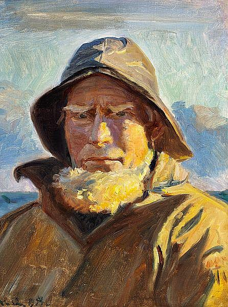 Lars Kruse, portrait of the heroic Skagen fisherman by Danish artist Michael Ancher. Skagensfisker Lars Kruse i eftermiddagslys (Fisherman Lars Kruse from Skagen in the soft afternoon light)